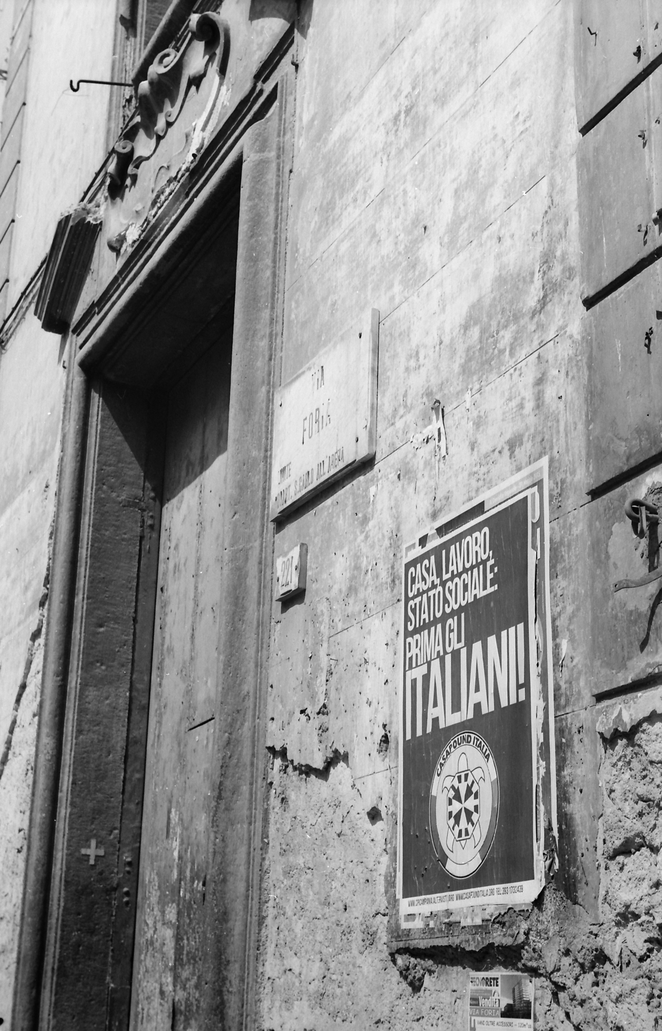 Door and political poster of "Casapound" in Napoli, via Foria (scan from negative, Ilford XP2 Super 400, Leica IIIc, Summitar 50mm f/2).